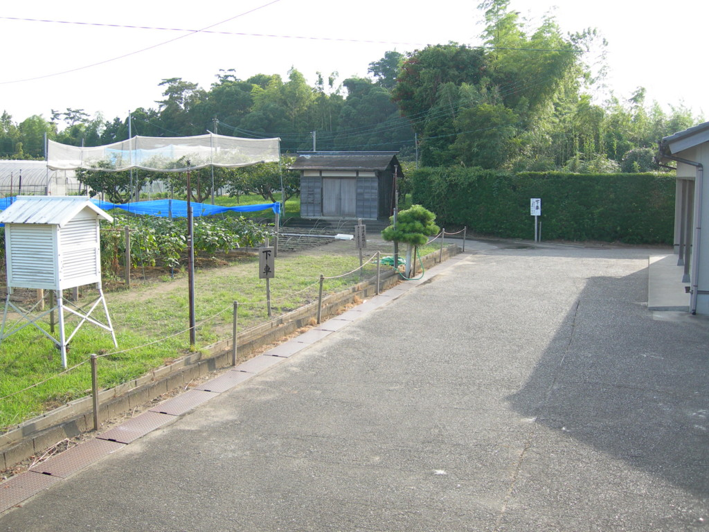 The Jingu-Misono, the Vegetable Farm in Jingu in Ise city Mie Prf. Japan.